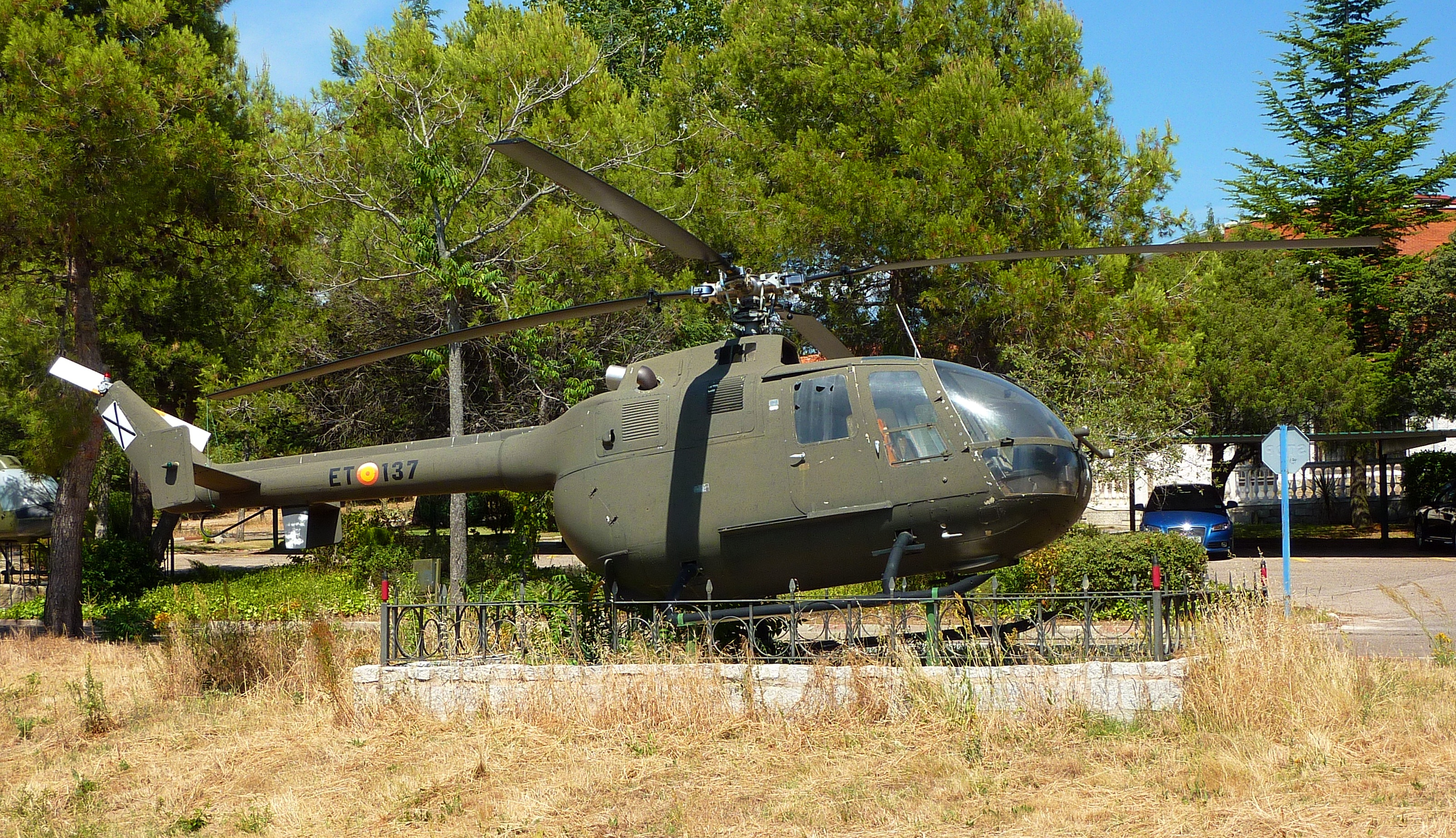 Spanish Army Bo-105C (written off).